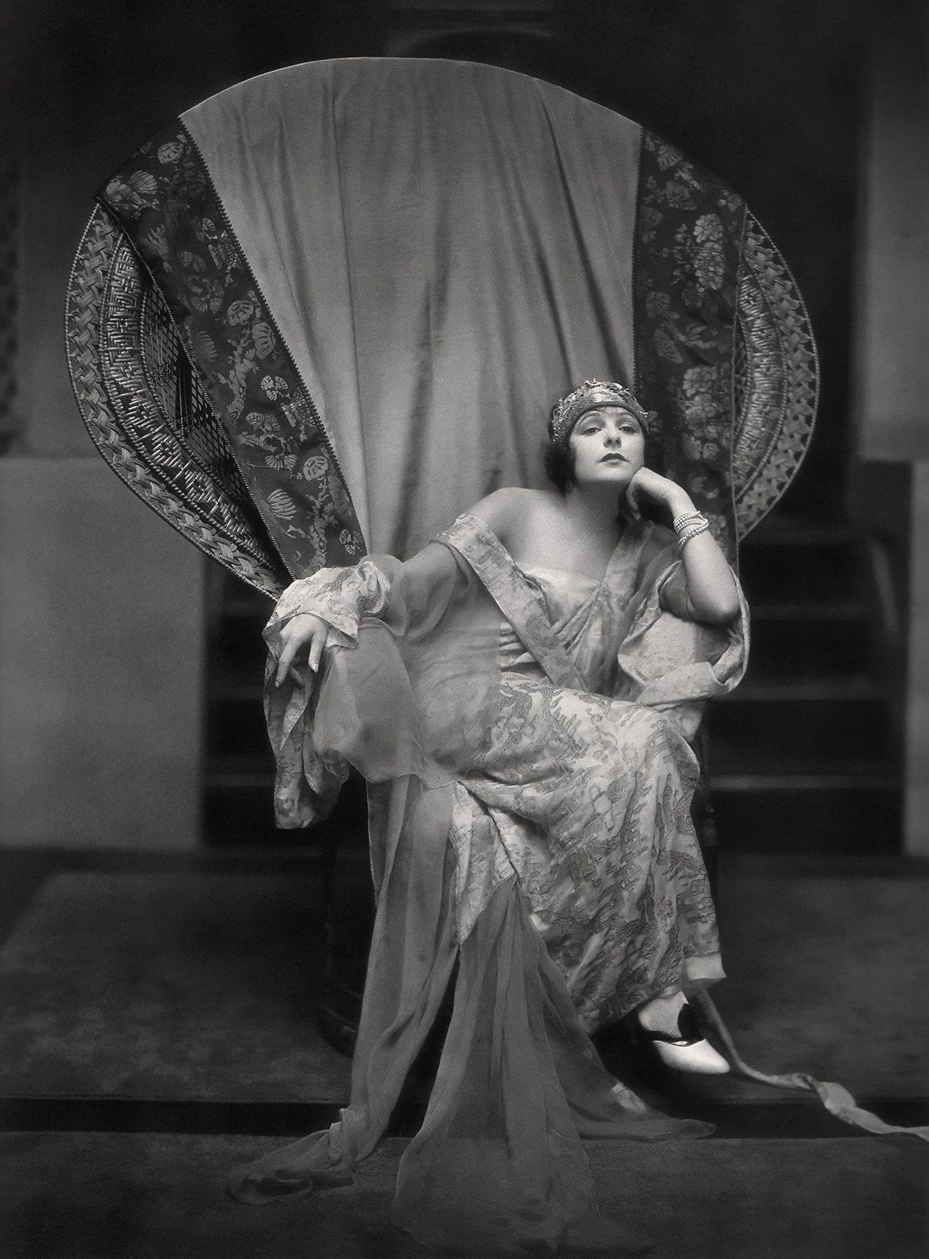 Dramatic publicity shot of actress Norma Talmadge seated in a large wicker chair.